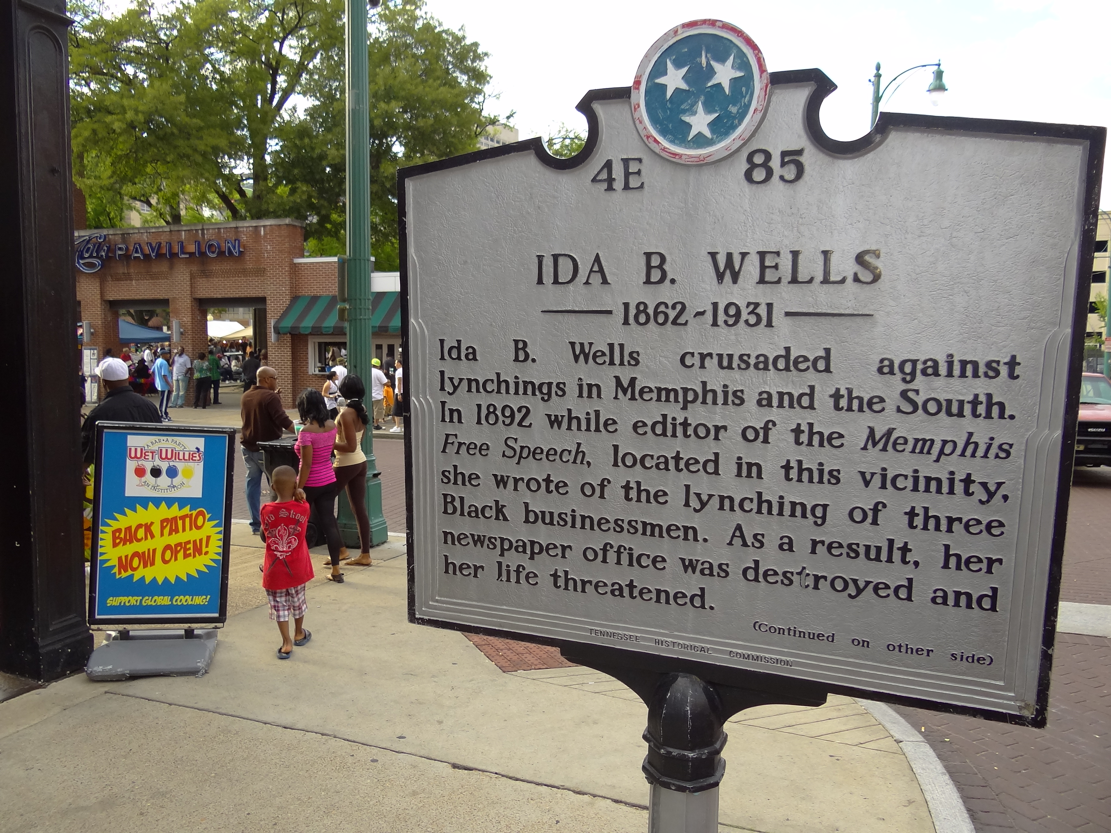 Sign Commemorating Ida B. Wells - Anti-Lynching Activist - Downtown Memphis - Tennessee - USA